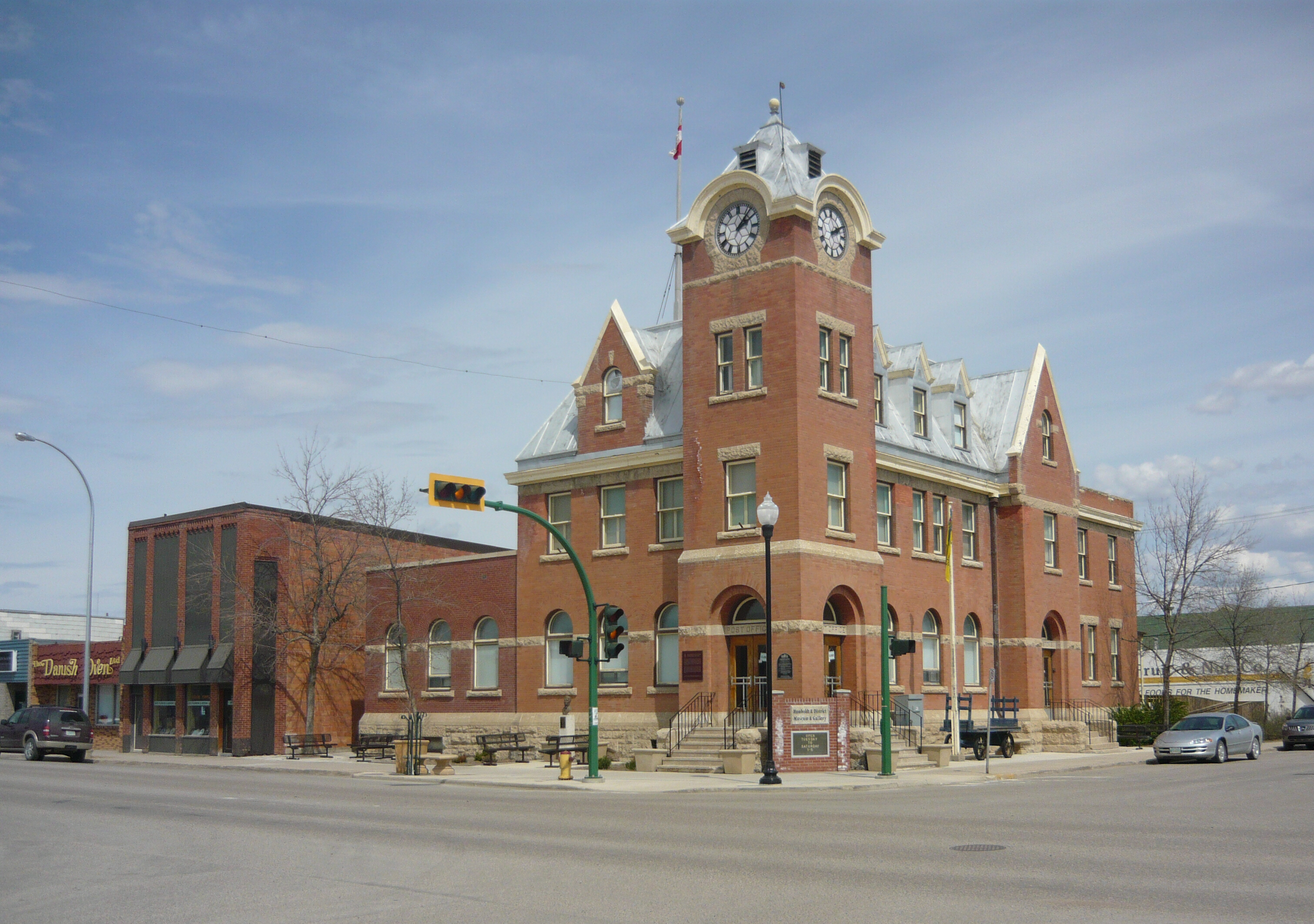 Humboldt Post Office, a national historic site of Canada, located at Main Street and Sixth Avenue, Humboldt, Saskatchewan, Canada. Architect: David Ewart. Built 1910-1914. Currently serves as the Humboldt and District Museum and Gallery.